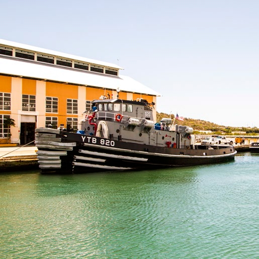 YTB 820 in Guantanamo Bay. Original caption: “U.S. Navy Yard Tug Big 820, moored at pier Tango, April 1, here. The tugboat is one of three that operate here. There are only five Natick-class tugboats left in the U.S. Navy.”